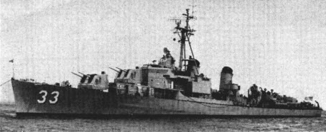 The U.S. Navy light minelayer USS Gwin (DM-33) at anchor, circa 1956. Gwin was the last of the Robert H. Smith-class destroyers to be decommissioned on 3 April 1958. The Robert H. Smith-class destroyers were twelve Allen M. Sumner-class destroyers converted to light minelayers during construction in 1944.